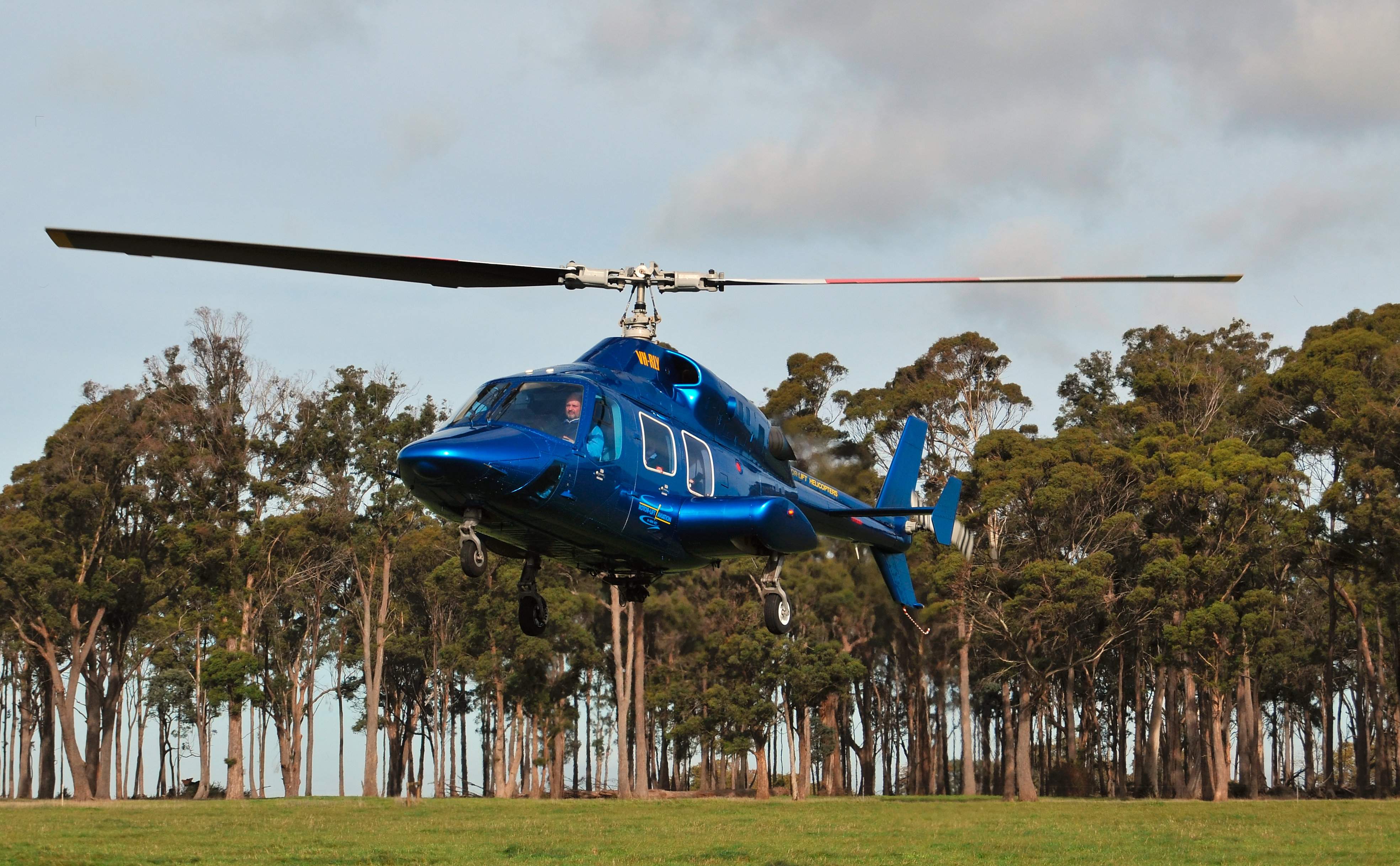 Bell 222 (VH-RLY) belonging to Rotor lift aviation being used for Joyflights at Agfest 2010, Tasmania, Australia